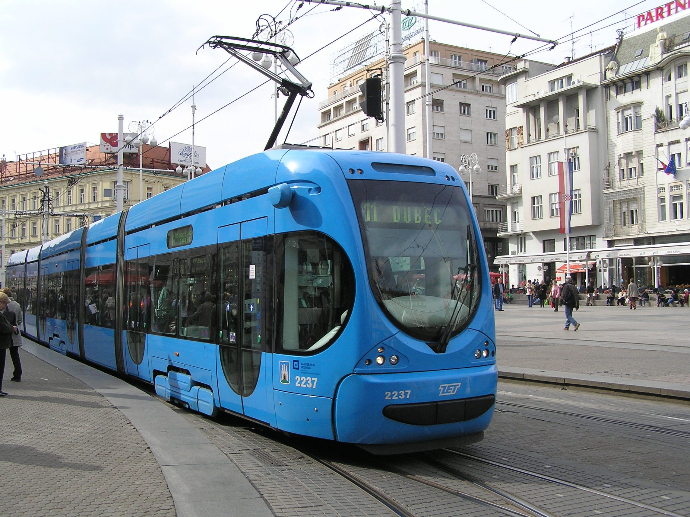 Crotram TMK 2200 tram (#2237) in Zagreb, Croatia. Built 2006.